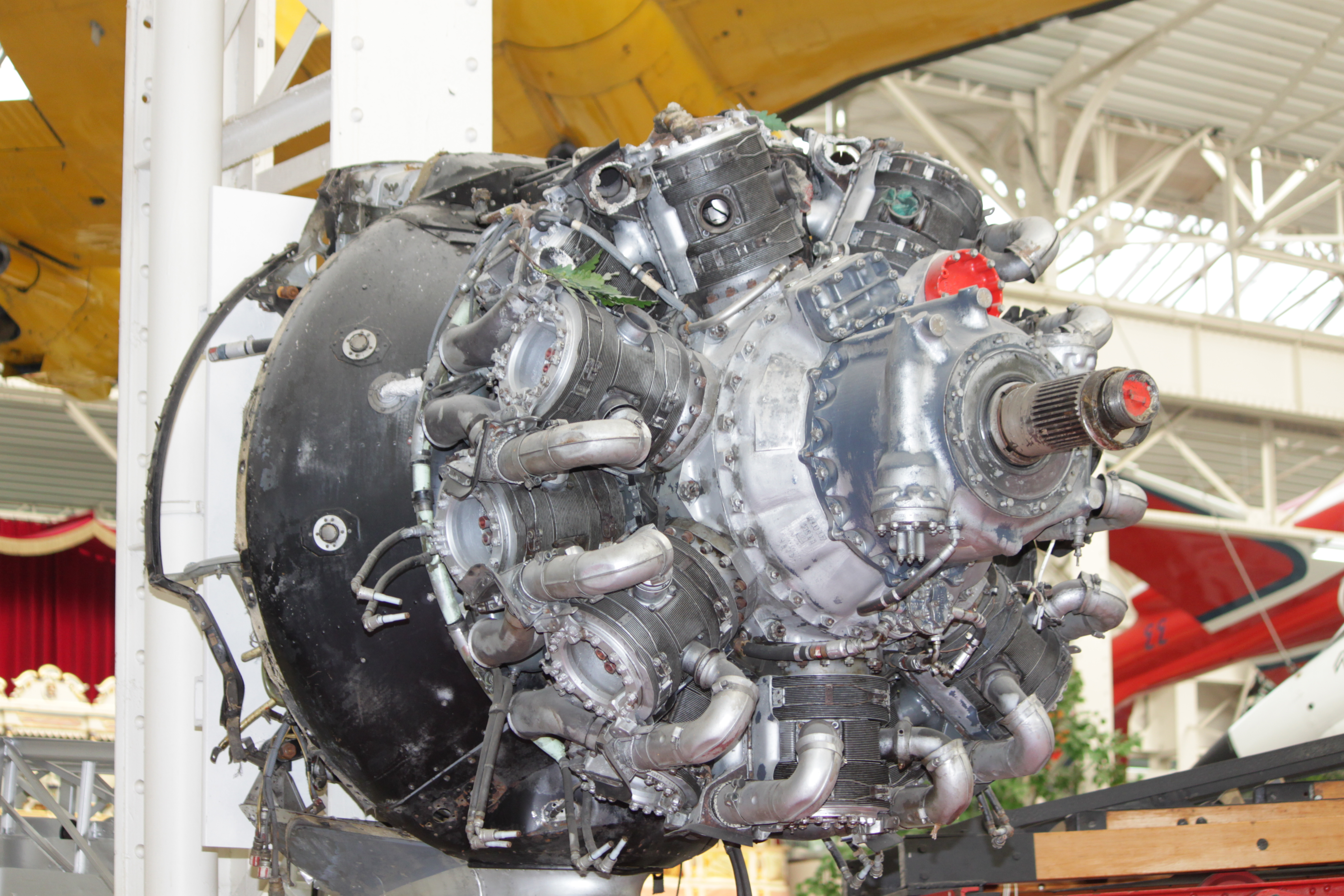 Bristol Hercules XVII Aircraft engine, 14-Zylinders